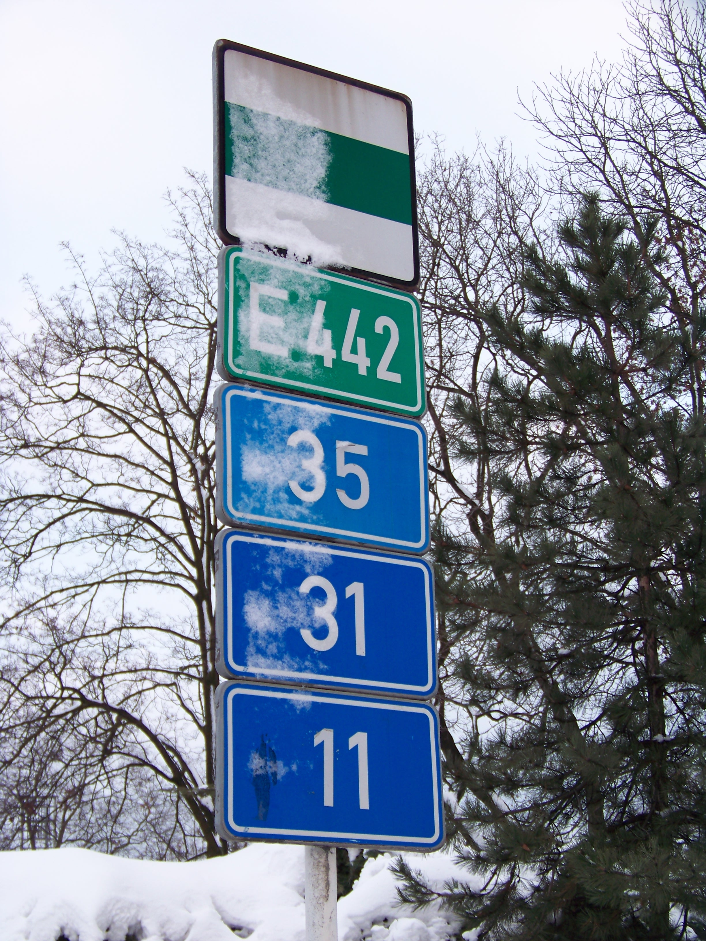 Hradec Králové, the Czech Republic. Route signs at Labský Bridge.